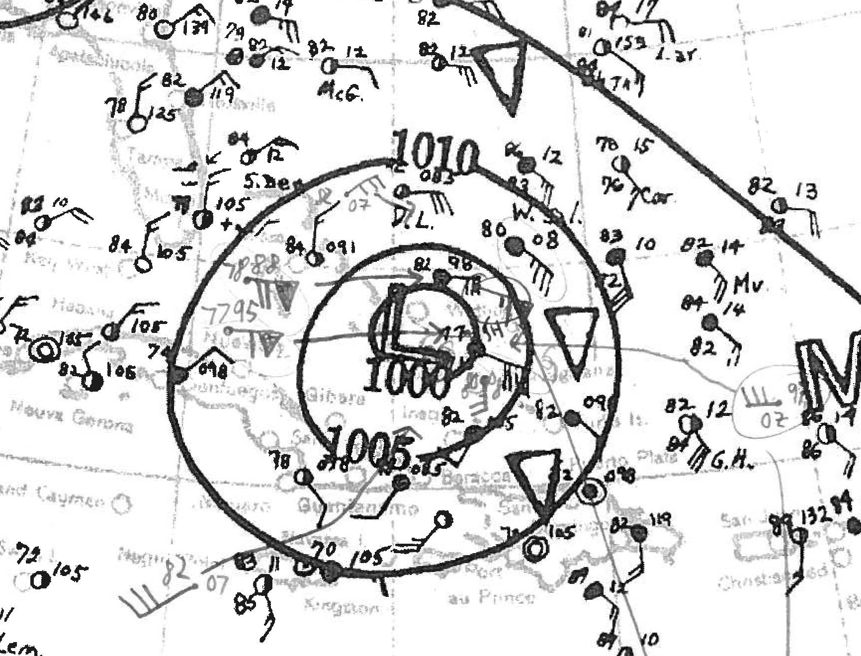 Surface analysis of Hurricane Five of the 1932 Atlantic hurricane season as a Category 5 approaching the Bahamas.